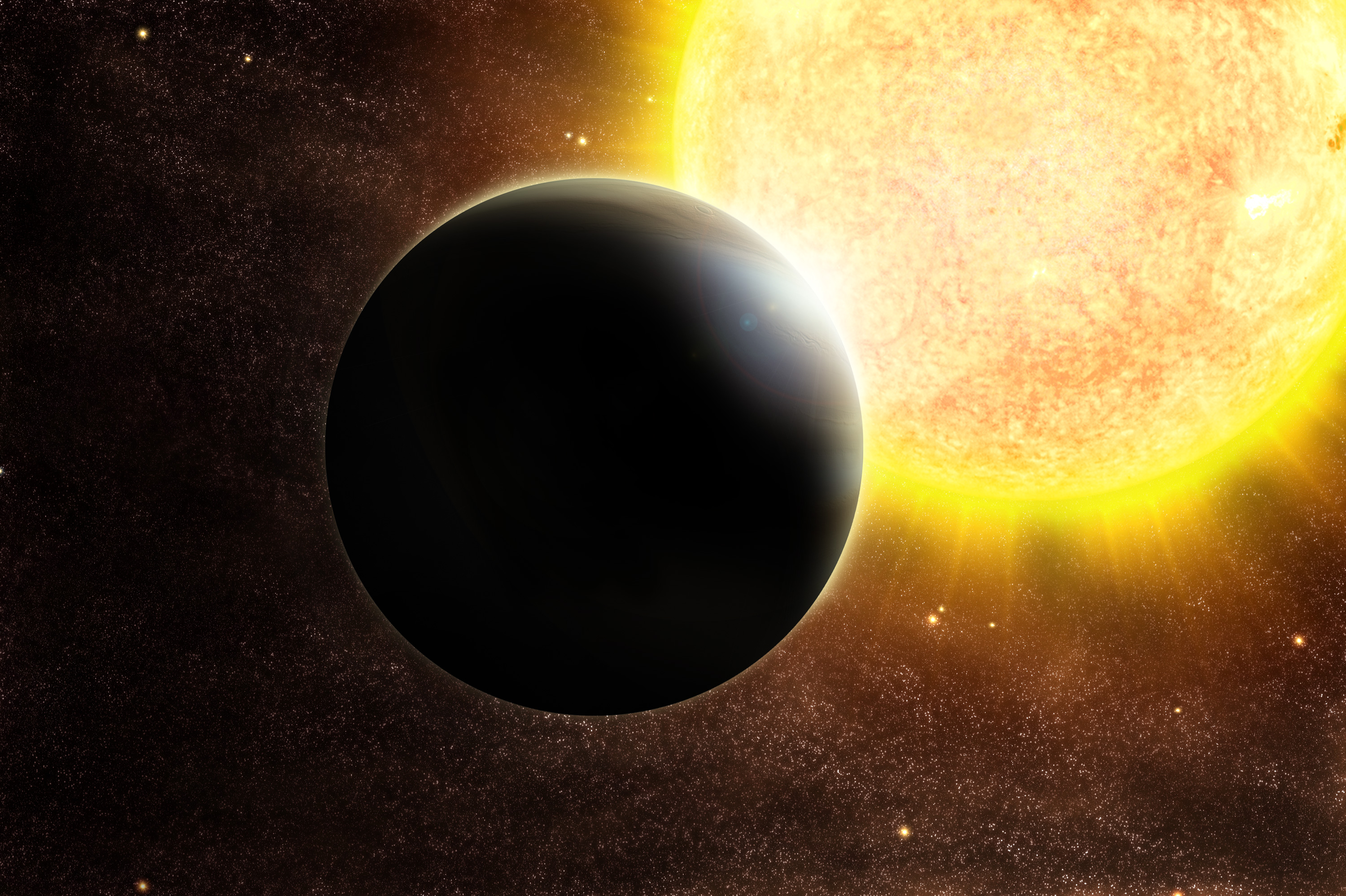 Artist's impression of a transiting Jupiter-mass exoplanet around a star slightly more massive than the Sun, such as the one discovered around SWEEPS-04.